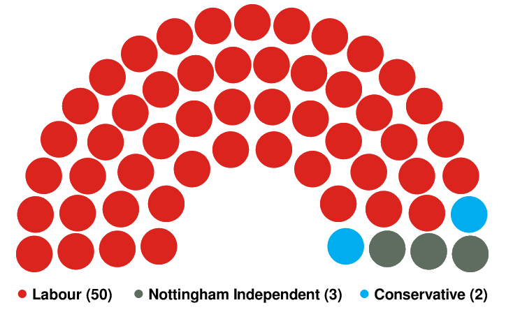 Composition of Nottingham City Council after the 2019 Local elections